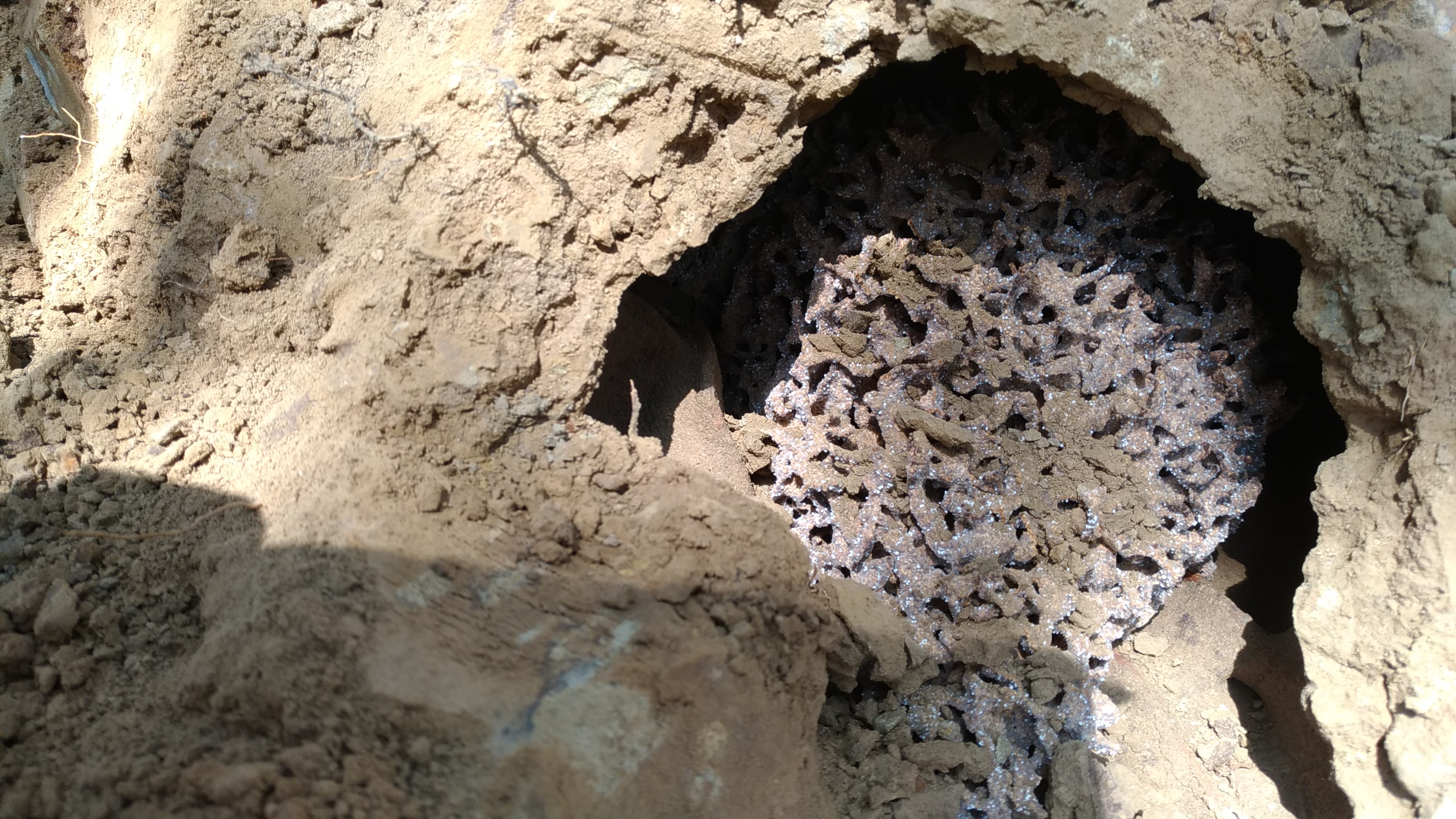 Termites have eaten a root and left a cavity with white fungus dots.